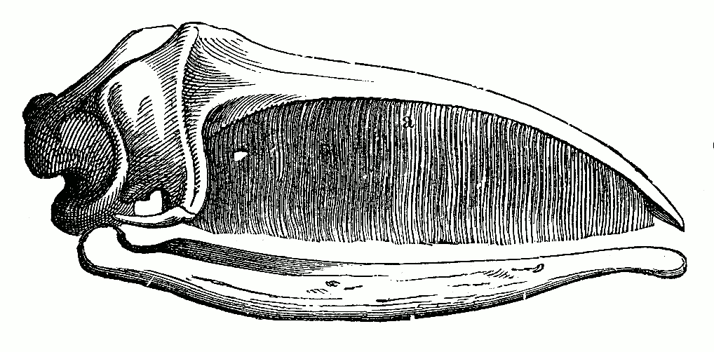 Skull of a whale